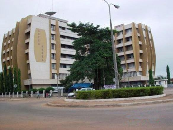 Cocoa House, Sunyani, Brong Ahafo The Cocoa House is a high rise that dominates the Sunyani skyline. The building house headquarters for several regional companies, two radio stations and numerous boutiques.